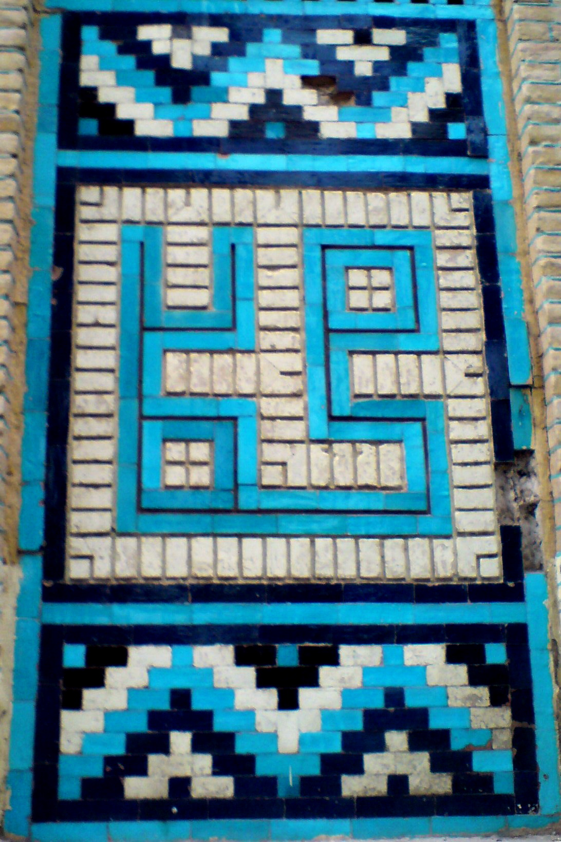 Wallpainting_in_Nishapur